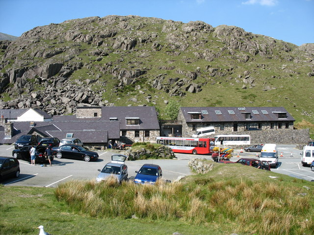 Pen-y-pass on a Sunny Day.